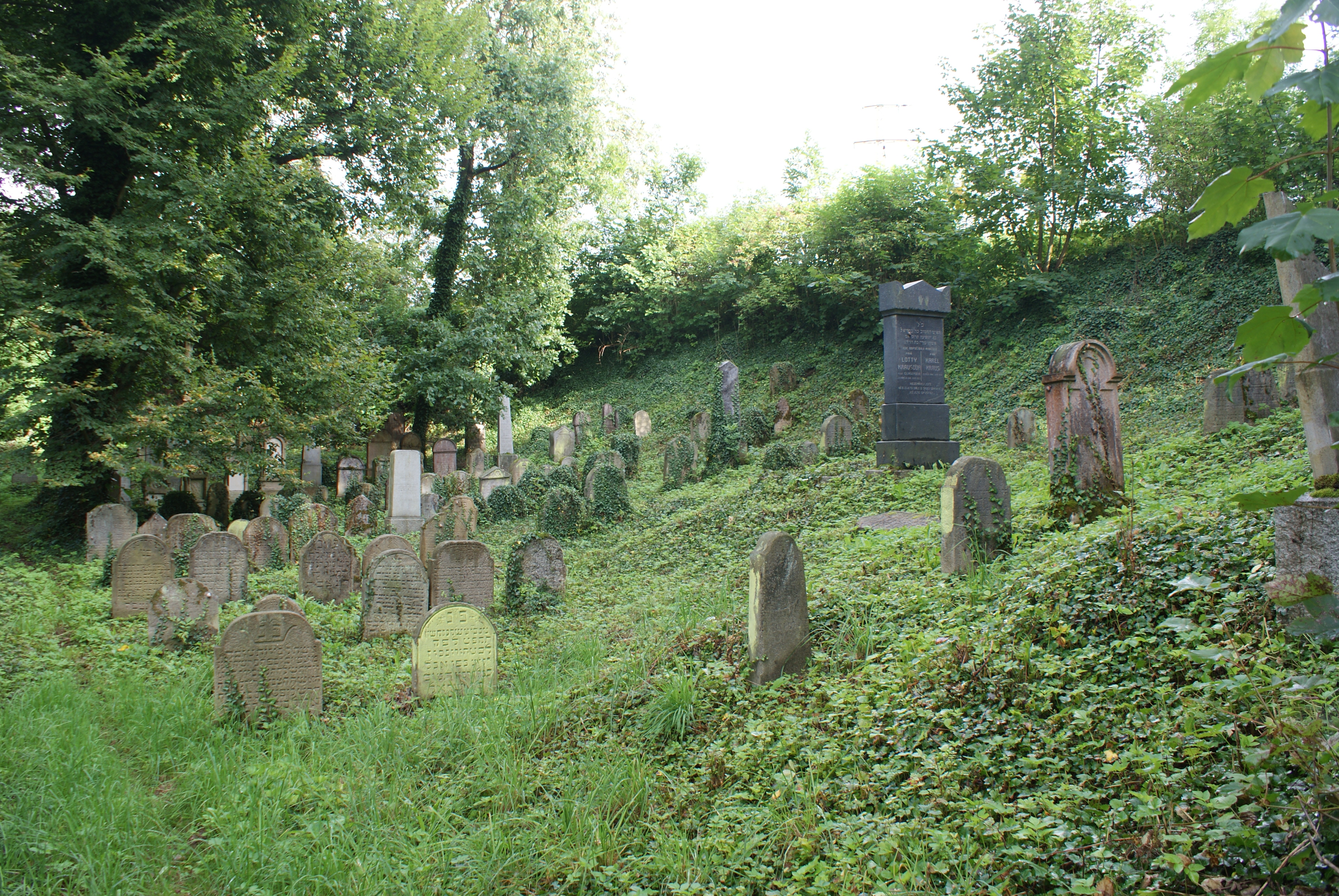 Blovice, a town in Plzeň-South District, Czech Rep., Jewish cemetery